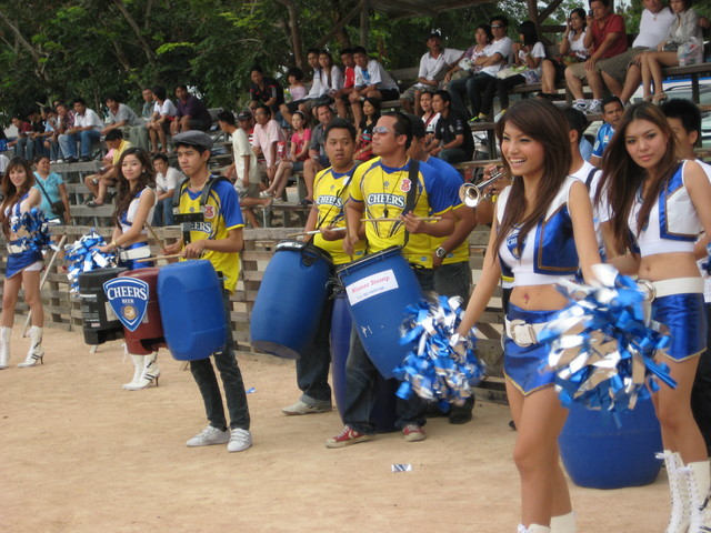 Pattaya United vs Nakhon Pathom